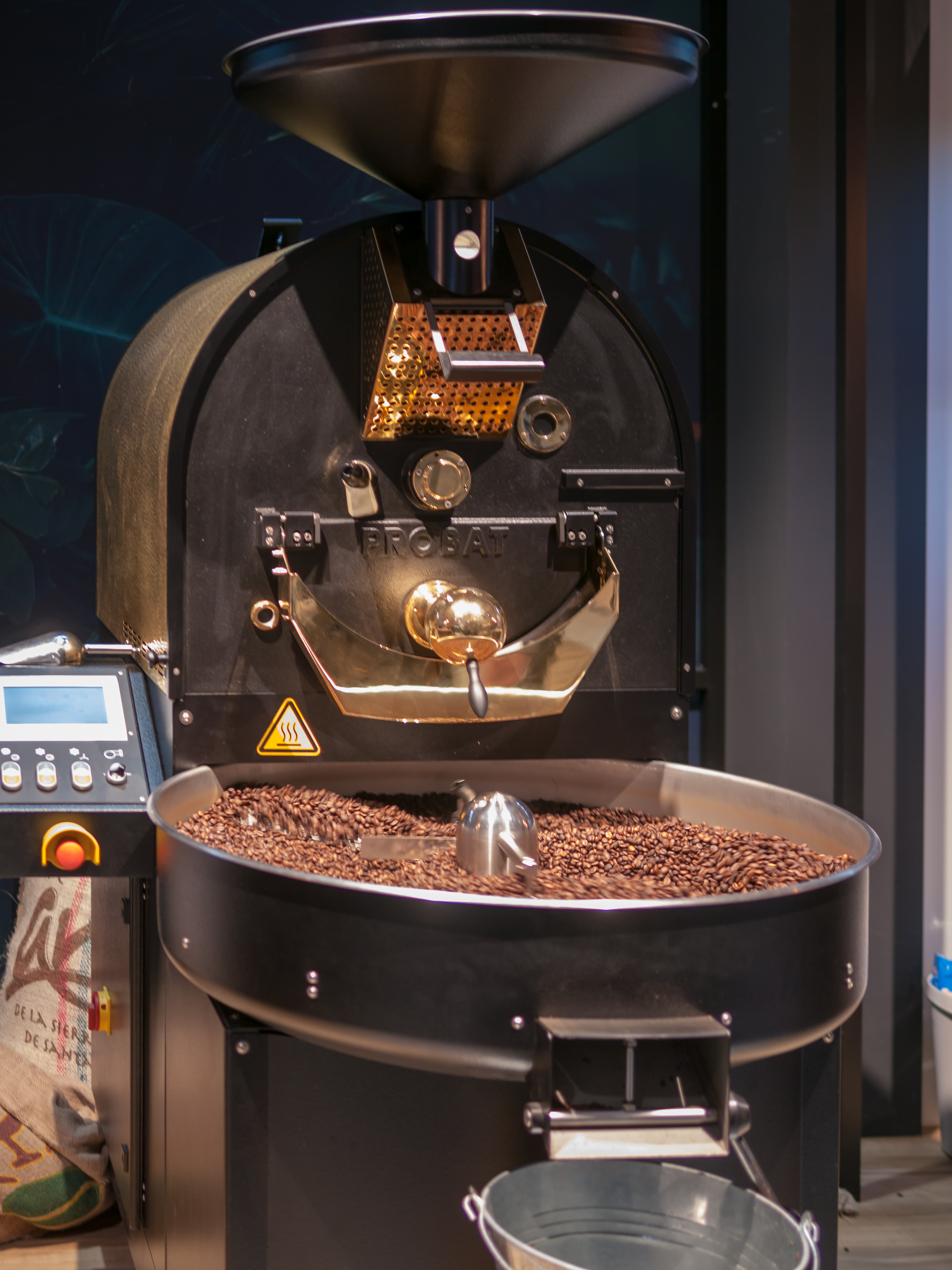 Miele, Internationale Funkausstellung 2018, Berlin